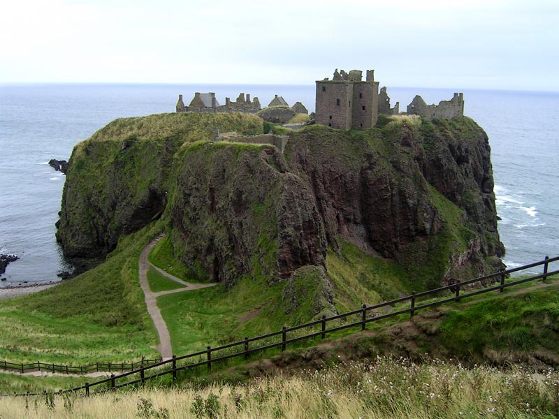 Dunnottar Castle near Stonehaven (Aberdeenshire, Scotland)